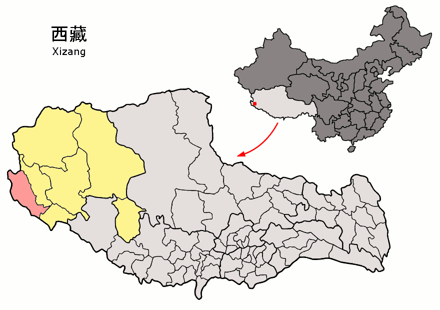 Location of Zanda County (pink) and Ngari Prefecture (yellow) within Tibet (Xizang) autonomous region of China